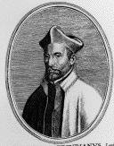 Everard Mercurian